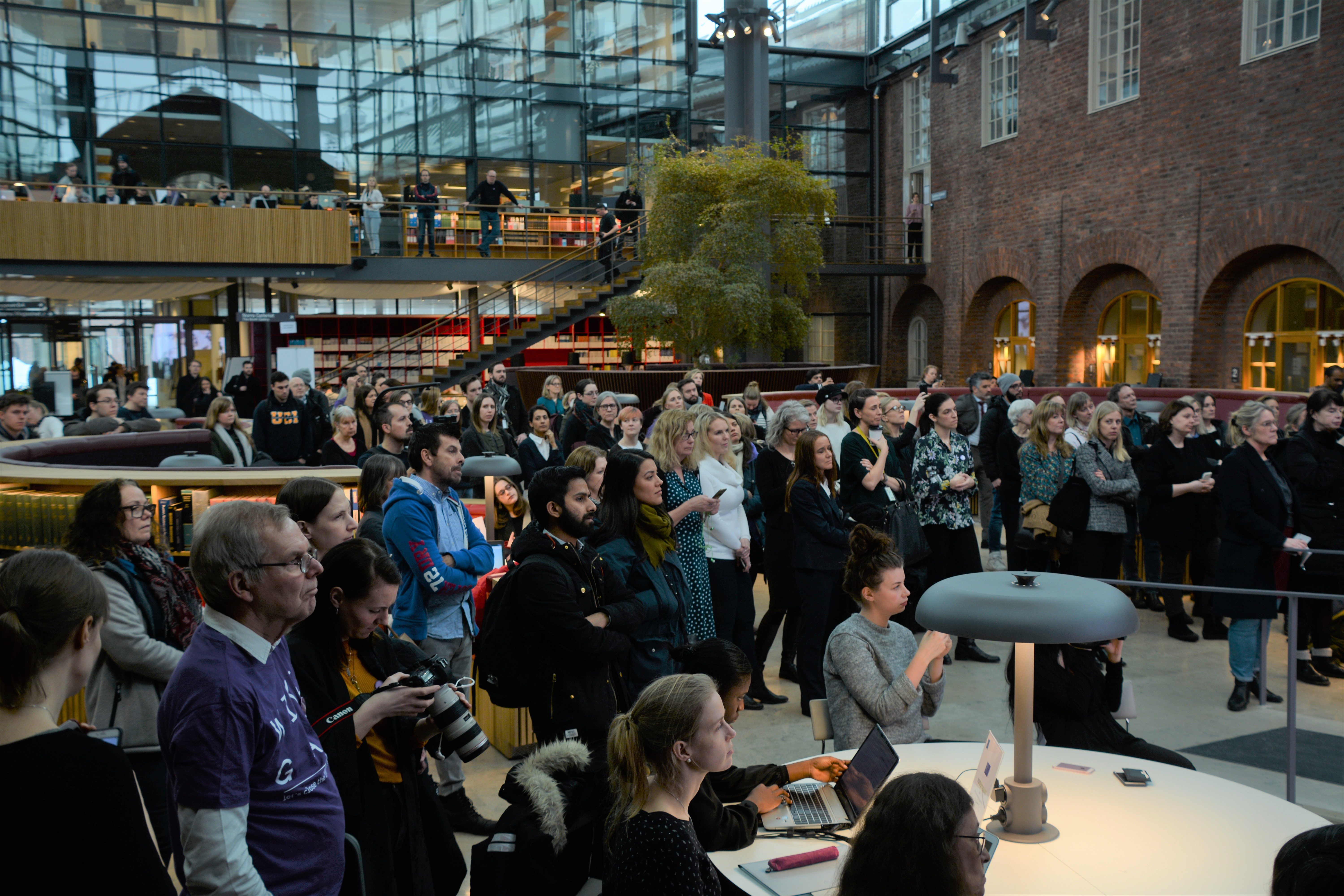 Audience at WikGap 2018 in KTH Library, Stockholm